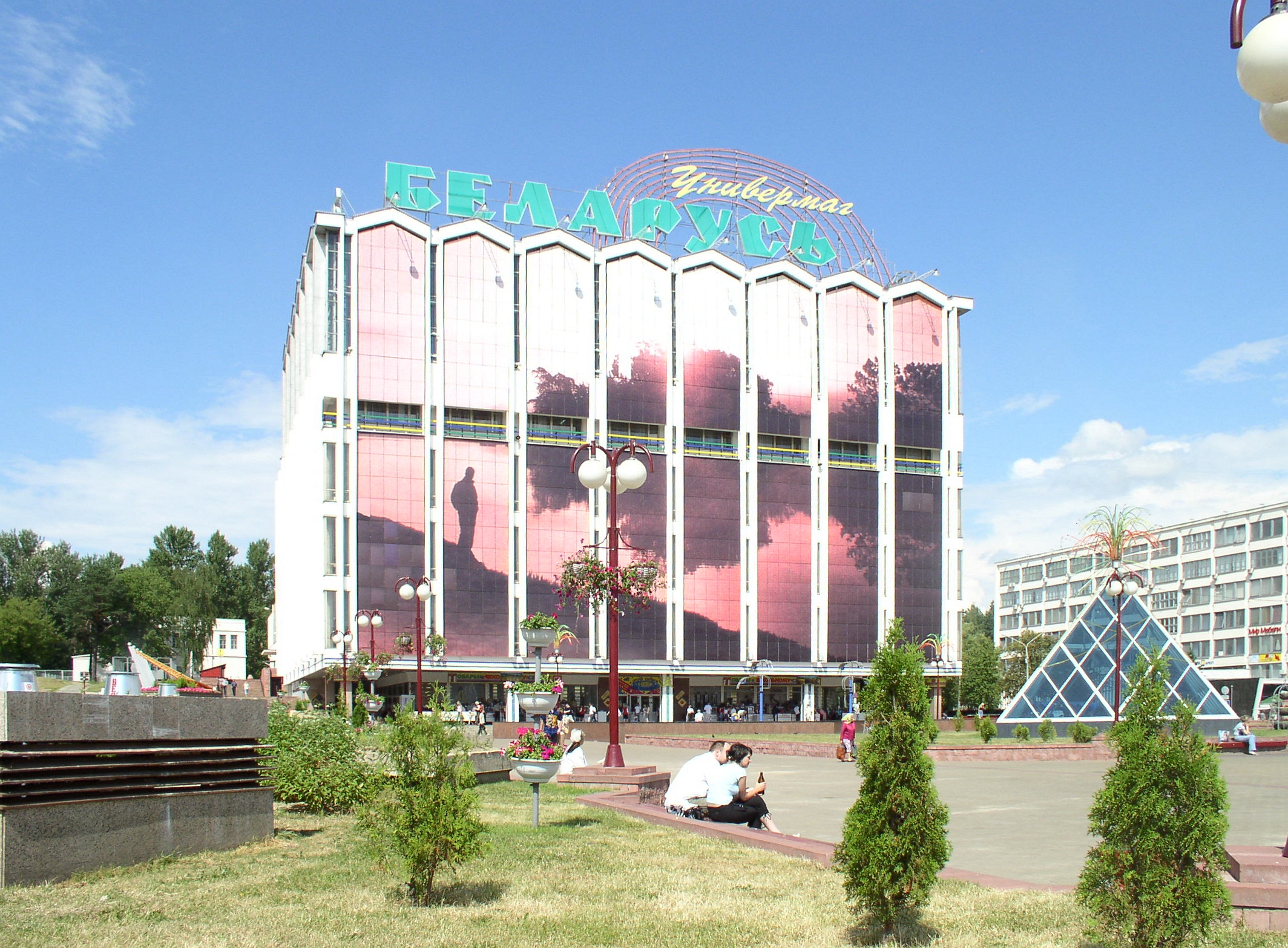 "Belarus" General Store, Minsk, Belarus.